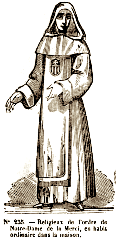 mercederian